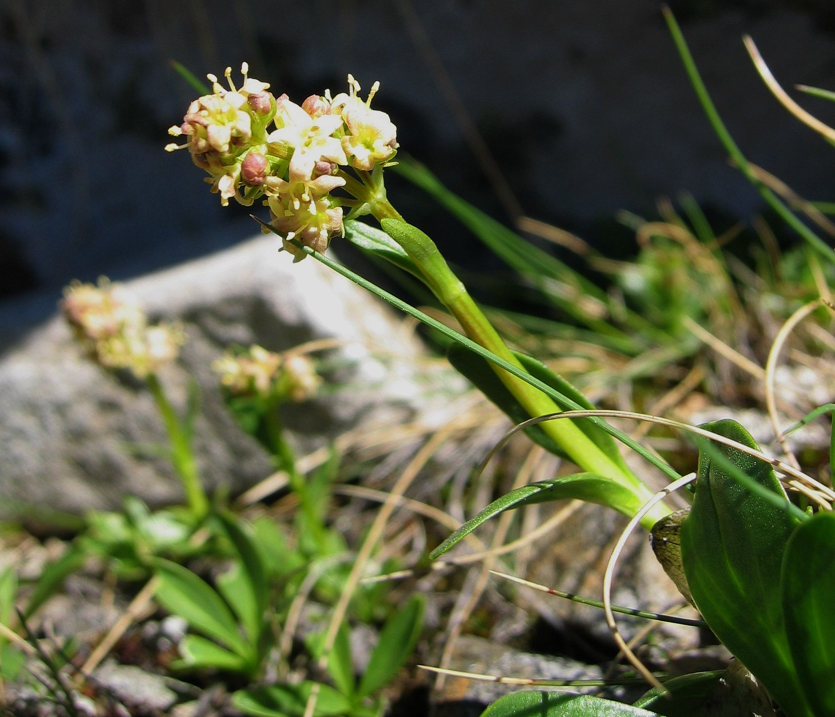 Description: Valeriana celtica Picture taken by User:Tigerente Habitat: Großer Bösenstein, Styria, Austria Date: 24. Juni 2005